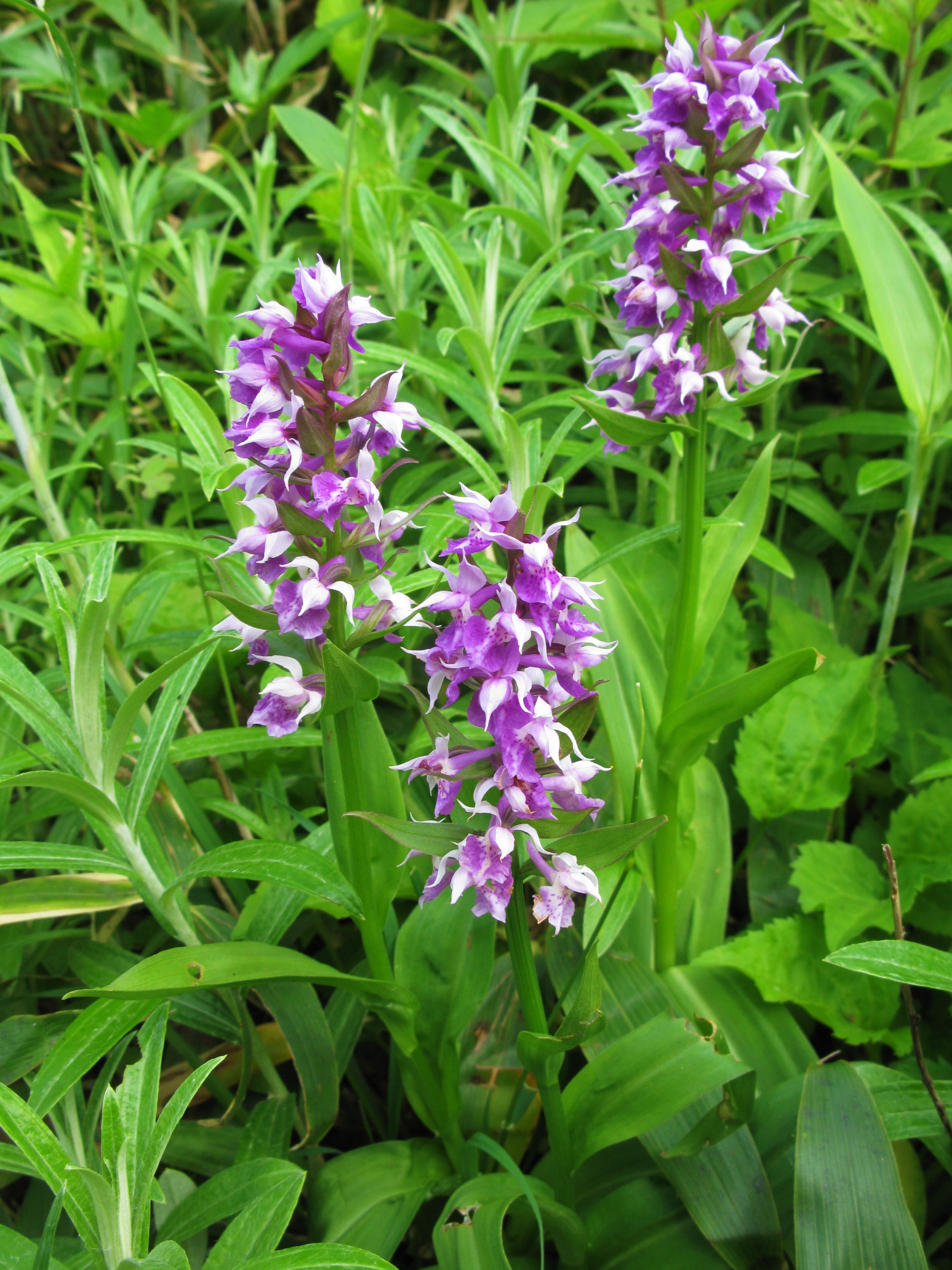 Dactylorhiza aristata, Mount Chōkai, Yamagata pref., Japan